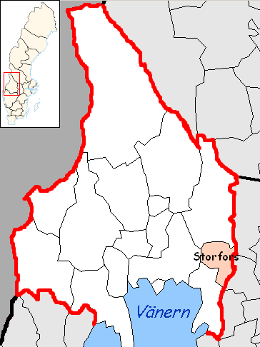 Storfors Municipality in Värmland County Designd by me, based on Image:Värmland County.png